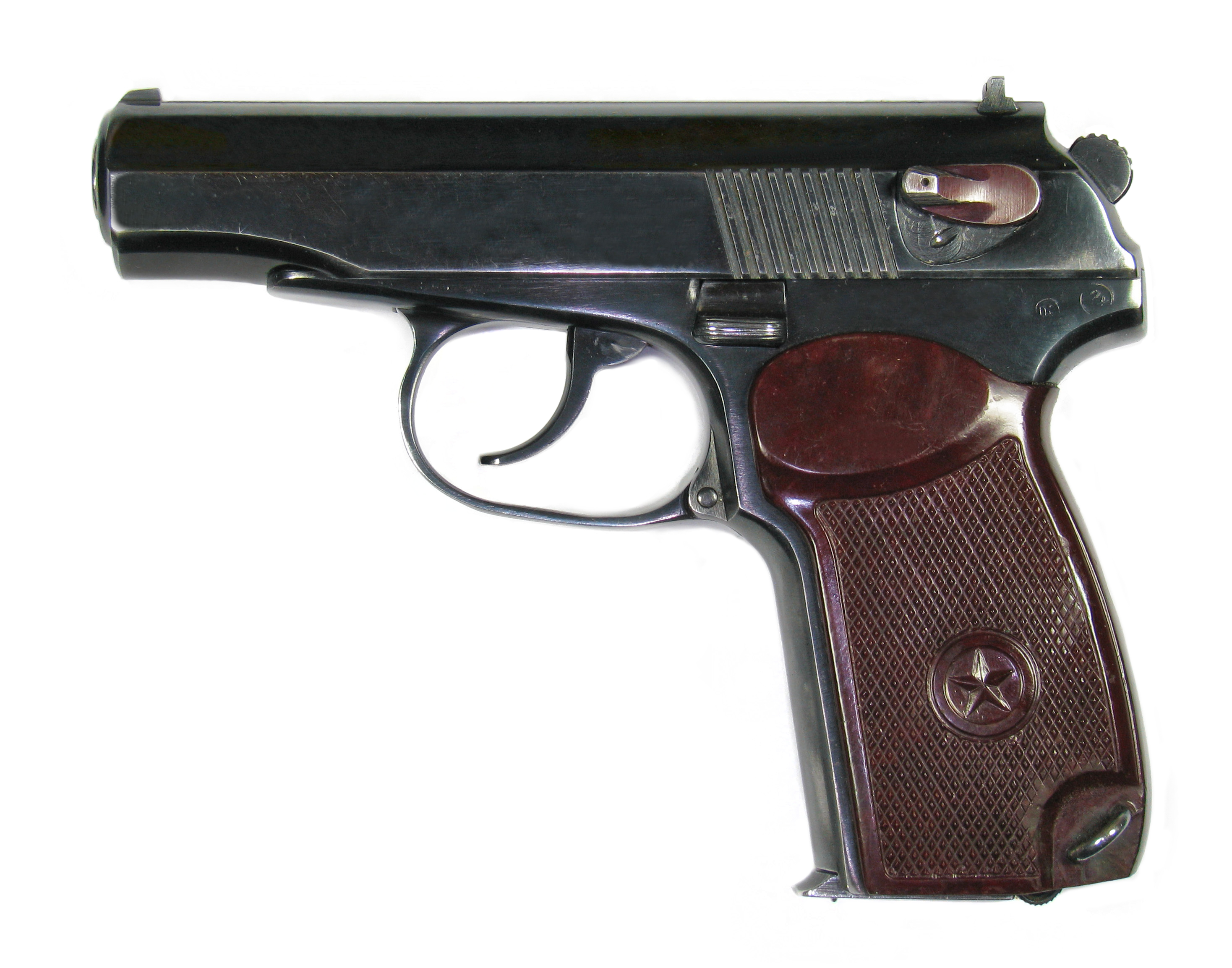 Makarov PM pistol (1977)